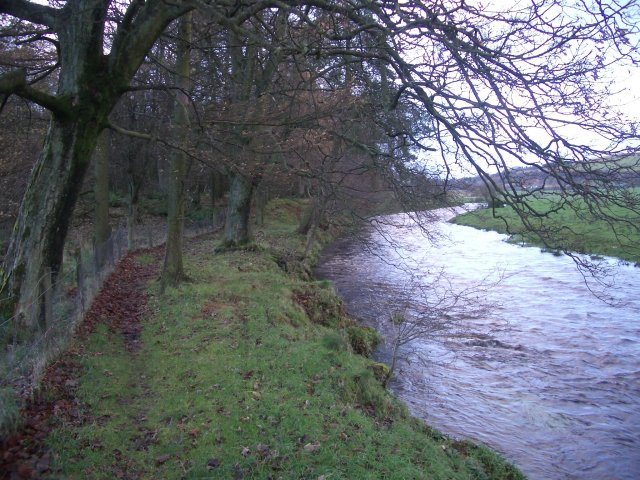 The River Devon above Crook of Devon